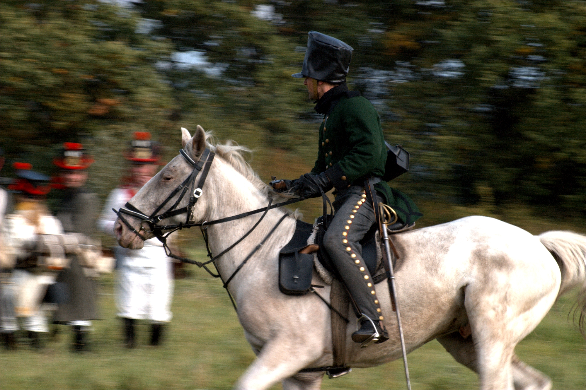 Taken at the 195 anniversary of the battle of Wartenburg. Re-Enactors from all over Europe gather every fifth year and fight in traditional uniform and weapons.